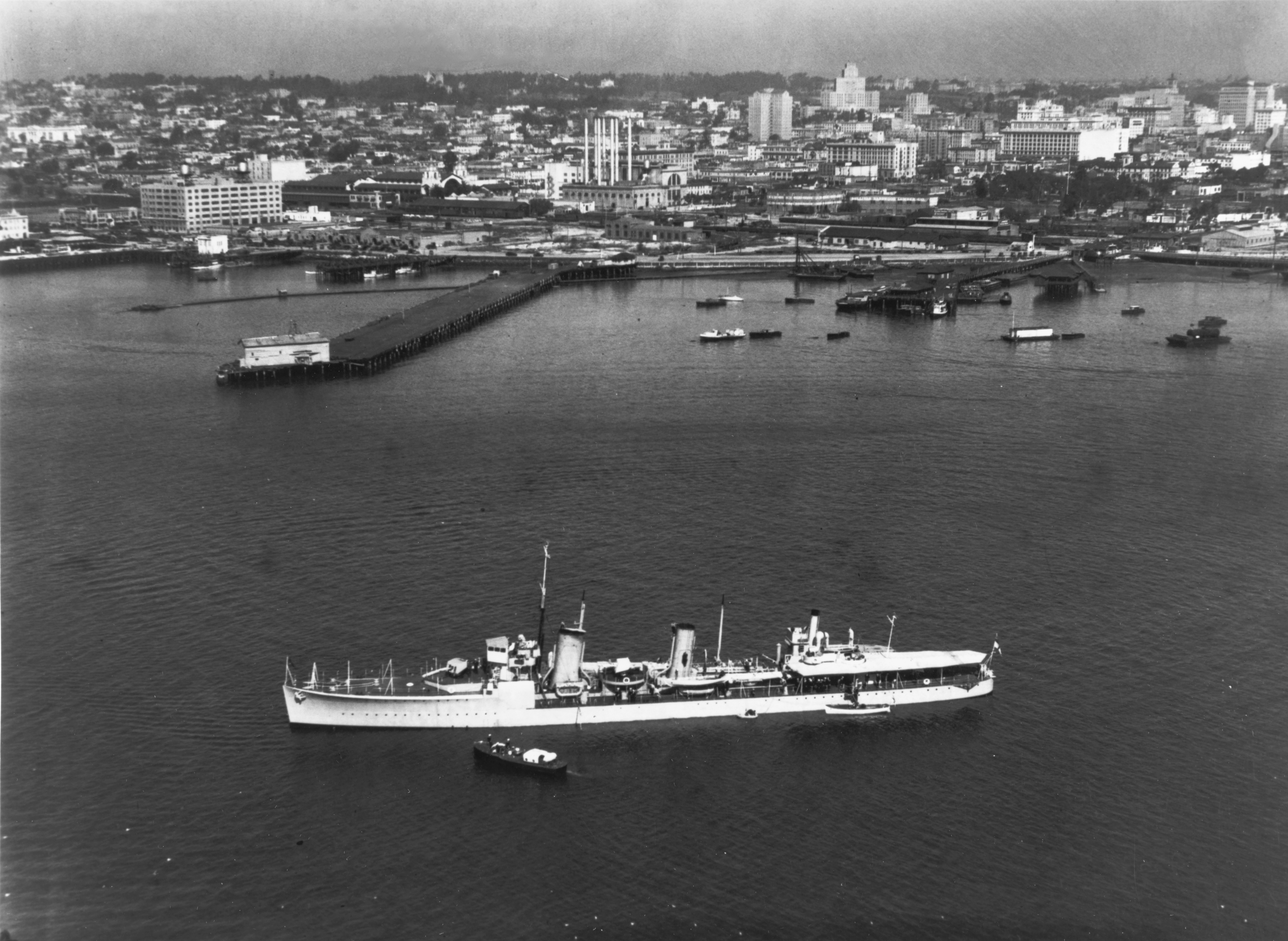 The Royal Canadian Navy destroyer HMCS Vancouver (F6A) anchored off San Diego, California (USA), on 5 March 1929.